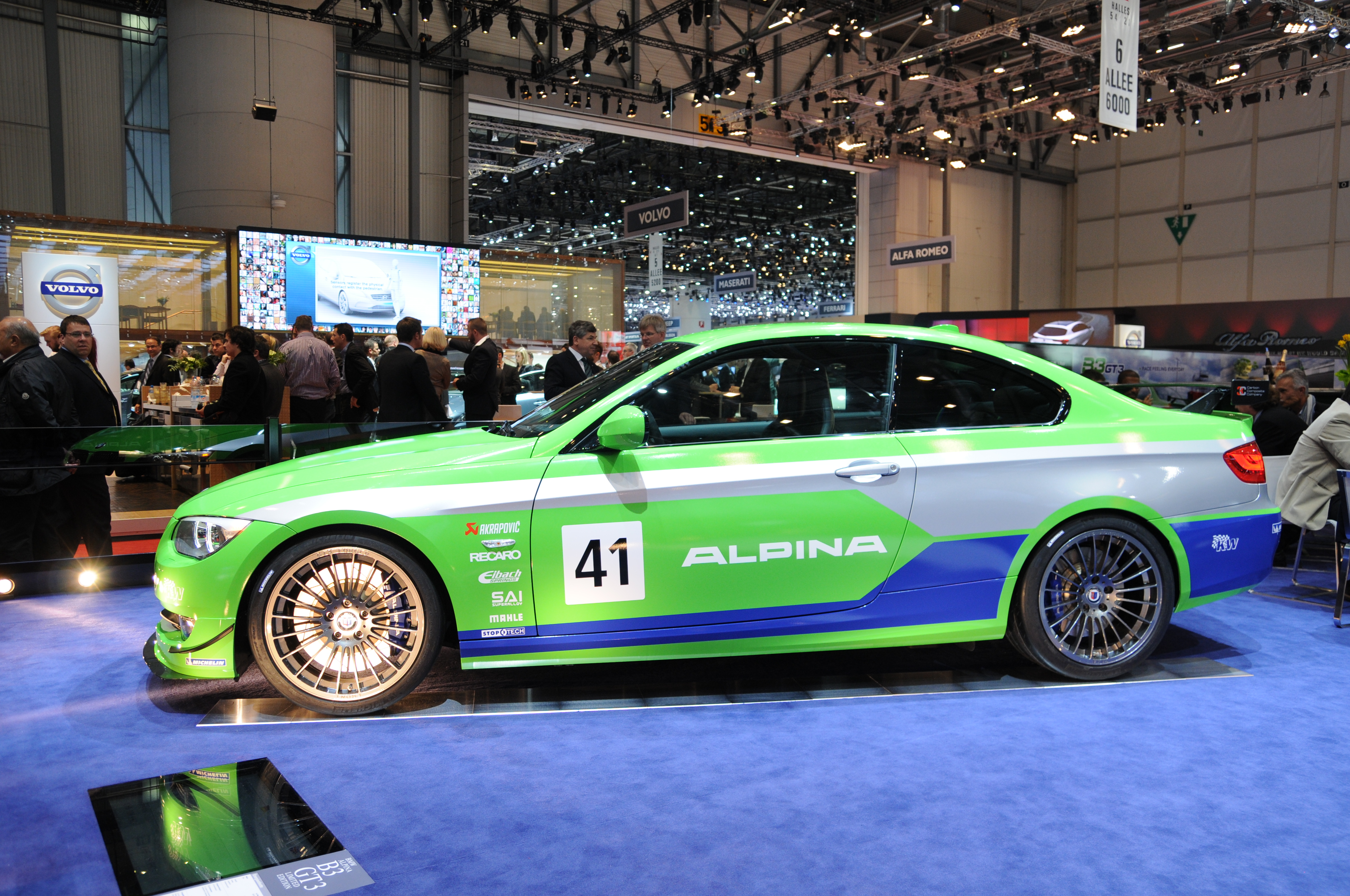 Alpina B3 GT3 at the Geneva Motor Show 2012 (photos taken on the second press day)